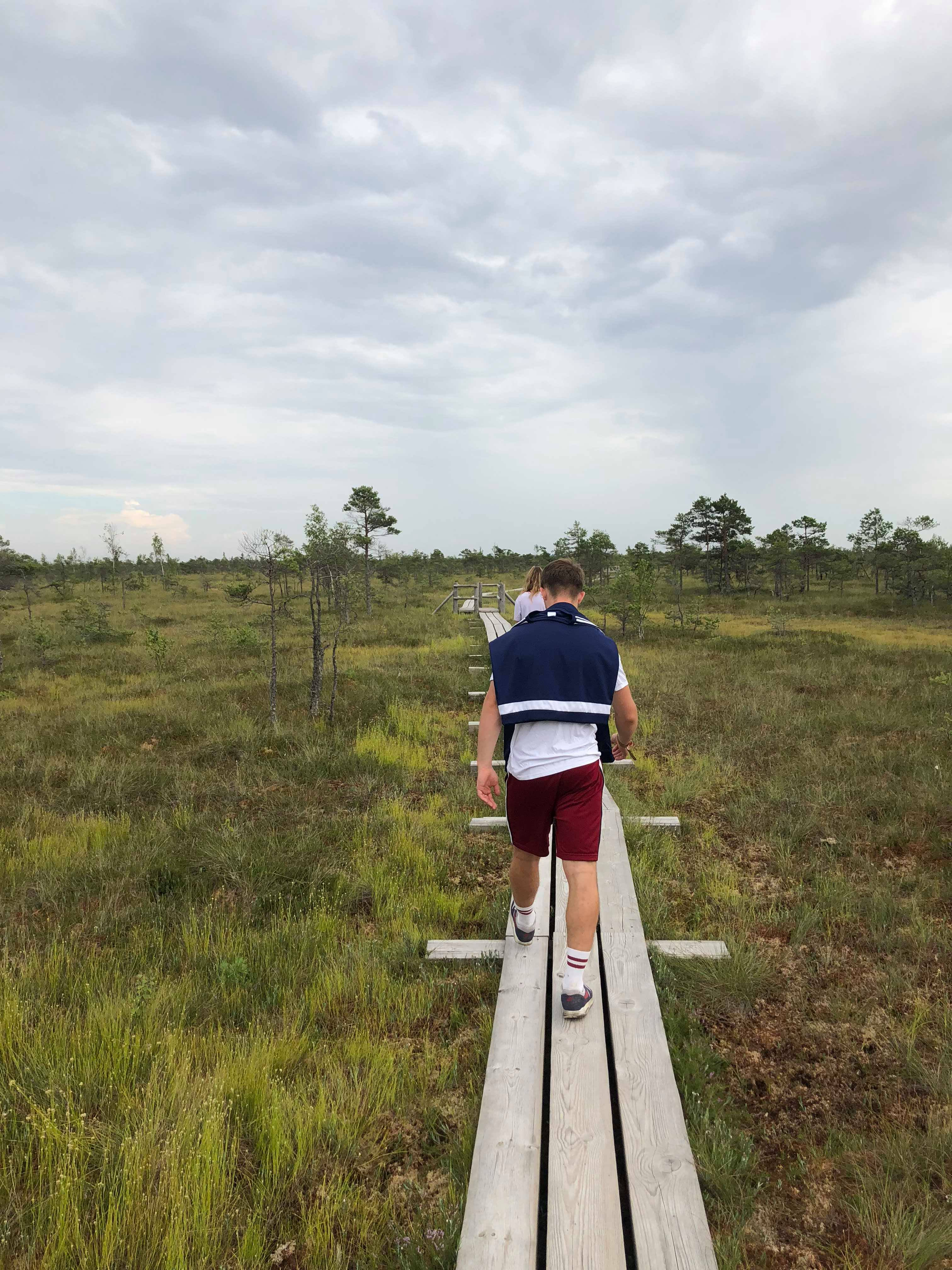 Kemeri Bog Boardwalk, Jurmala, Latvia